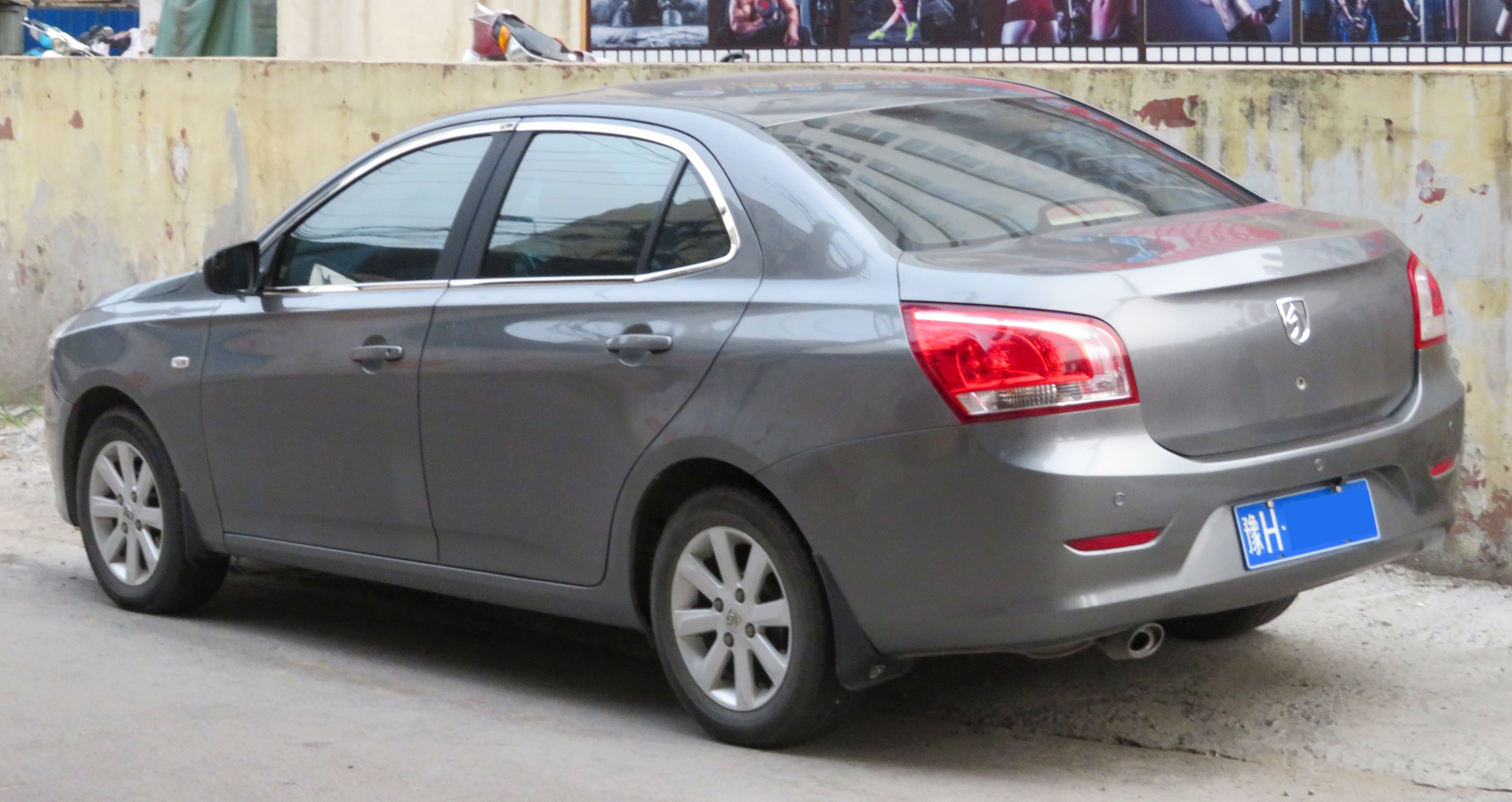 A 2014 Baojun 630 sedan photographed in Luoyang, Henan province, China